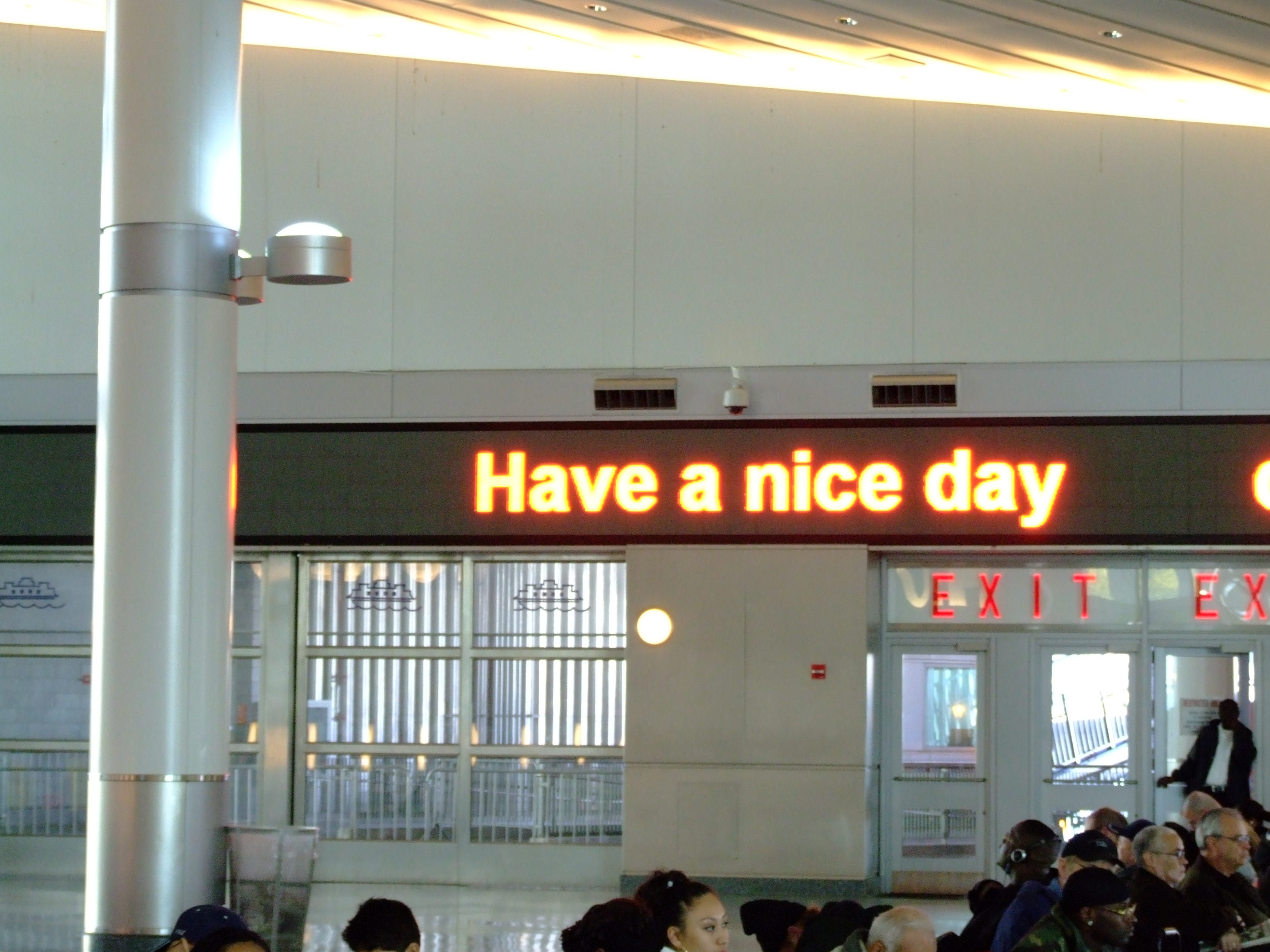 The quintessential American phrase in the Staten Island Ferry terminal in Manhattan